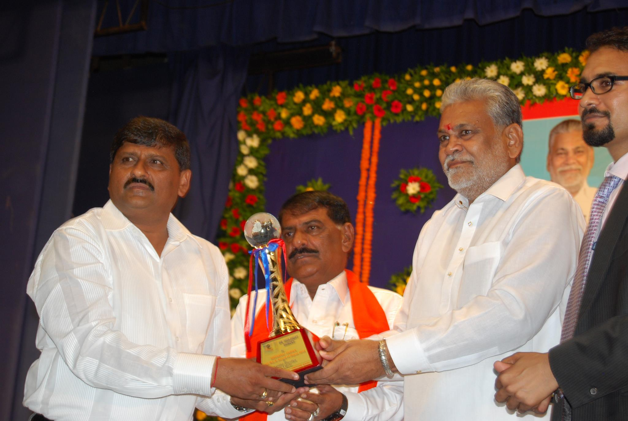 Recieving 2nd Best M.L.A. Award out of 182 in Gujarat. In Presence with Purshotam Rupala and M.D. of shining India Agency Mr.Saini